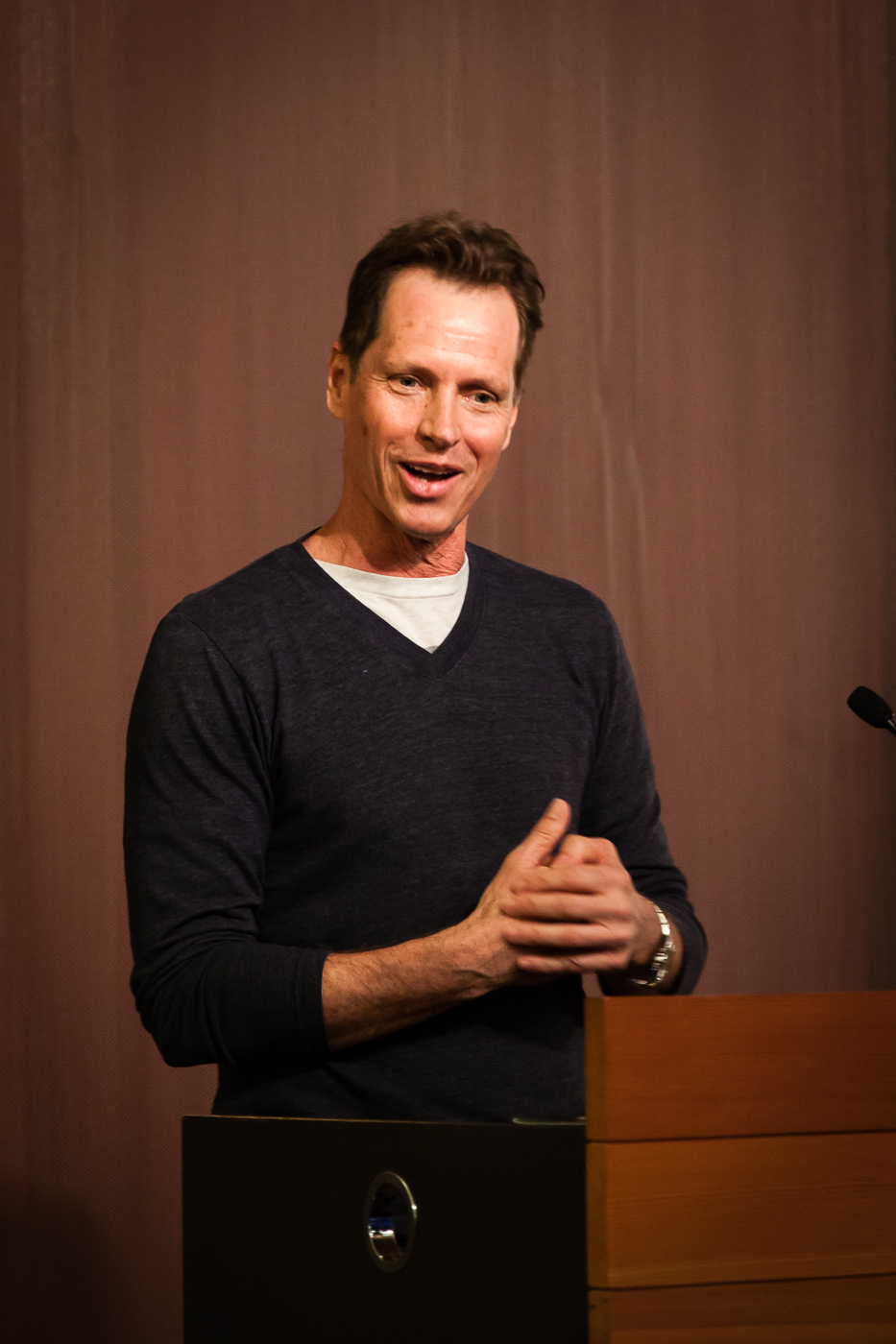 Young Adult Literature Authors Frank Beddor and Eric Laster discuss story creation, craft, and publishing with English Education students.